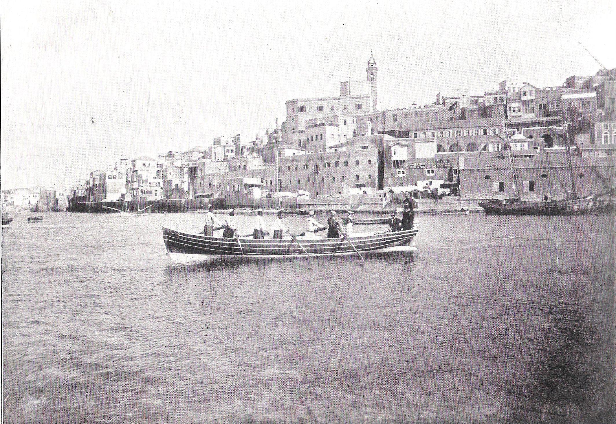 Jaffa